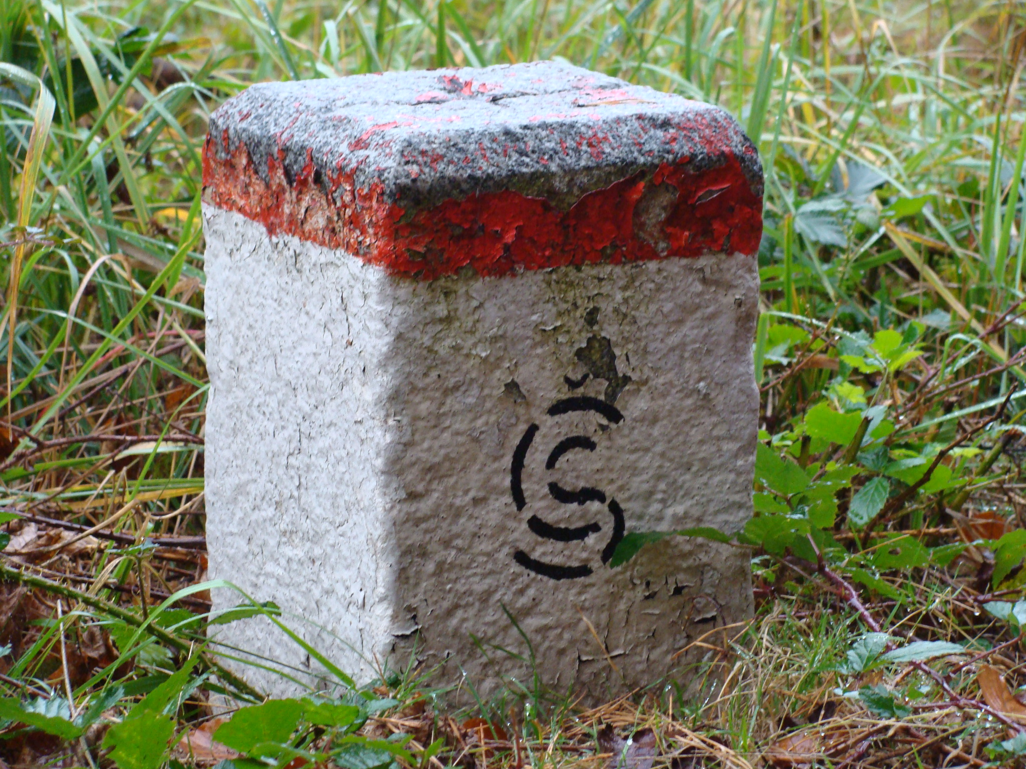 CSSR borderstone, located near Felling, Lower Austria